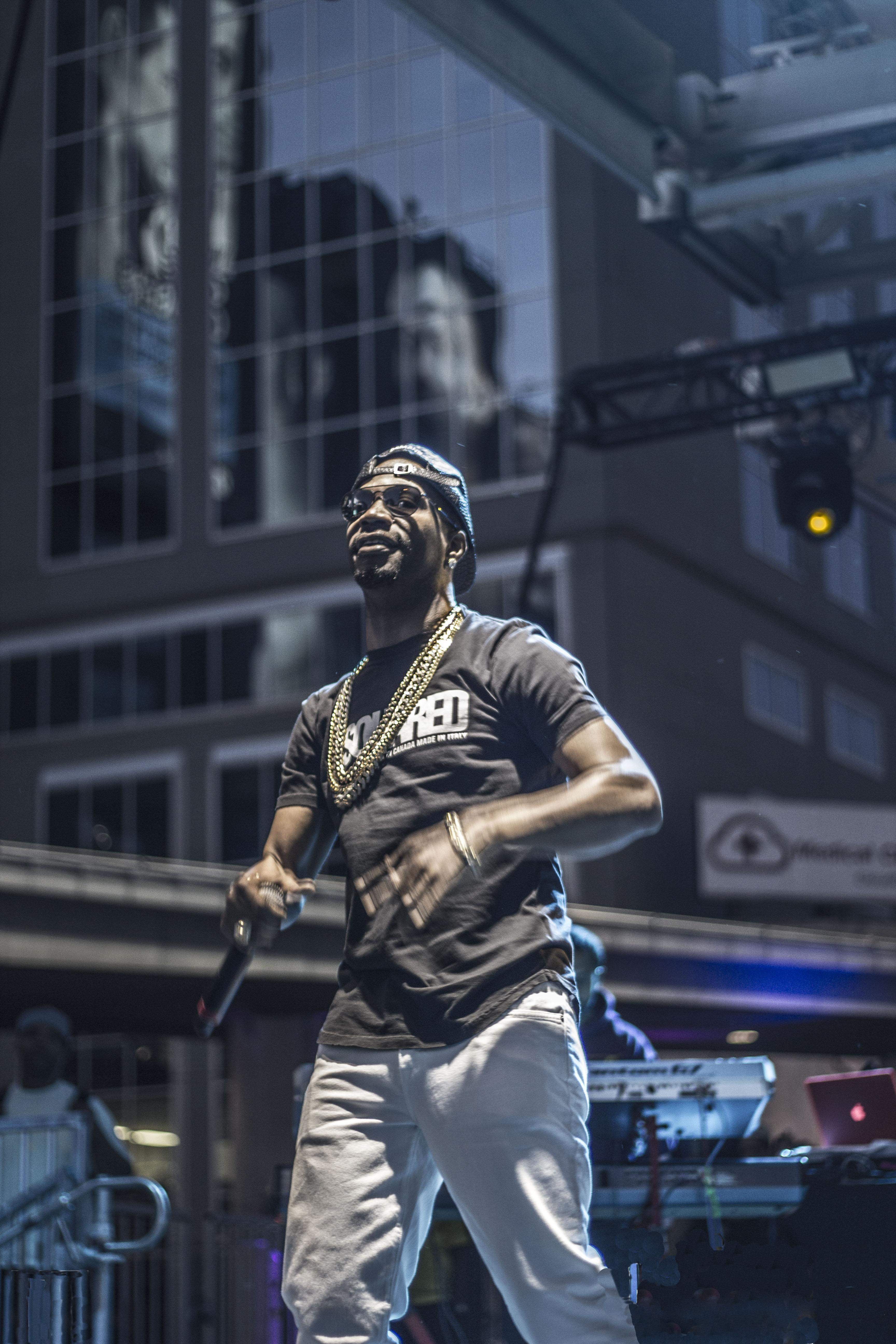 Juicy J at NXNE on June 22, 2014, in Toronto.